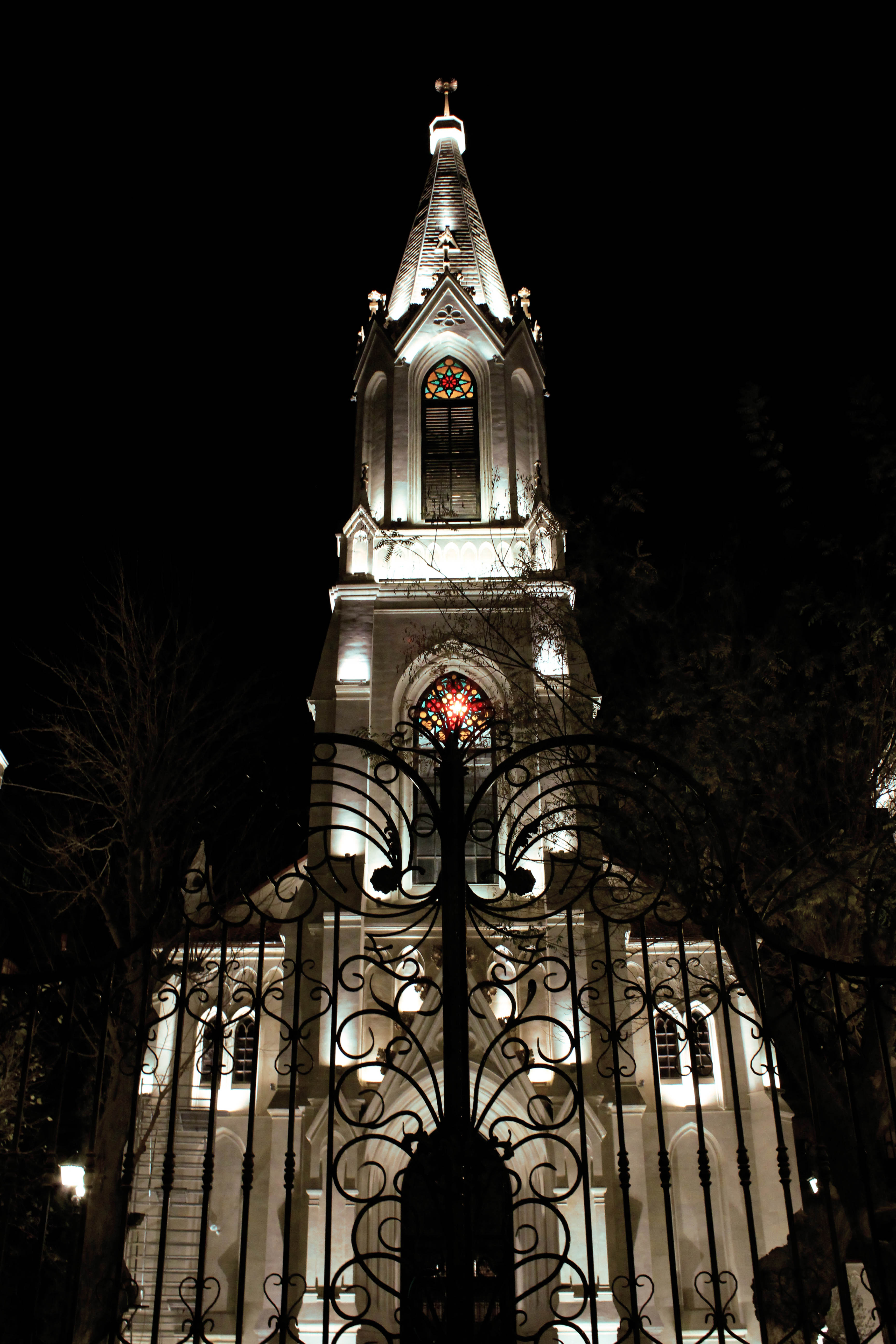 Saviour church in Baku